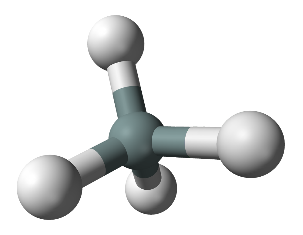 Ball and stick model of the silane molecule.